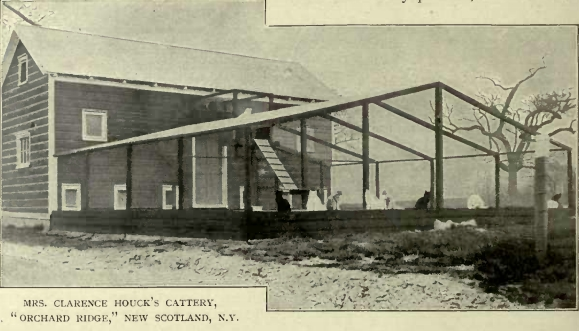 MRS. CLARENCE HOUCK S CATTERY, "ORCHARD RIDGE," NEW SCOTLAND, N.Y.